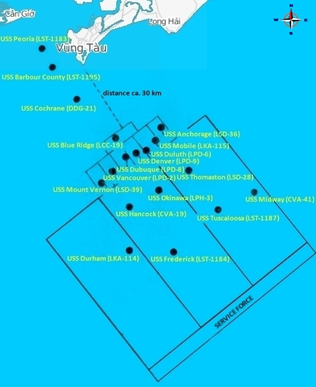 Map showing the disposition of U.S. Navy ships at the start of "operation Fequent Wind", in April 1975. The command ship USS Blue Ridge (LCC-19) was located approximately 28 km from Vung Tau, Vietnam, at 1500 hrs on 29 April 1975.